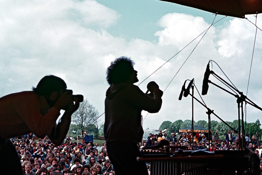 David Friedman (vibraphon) at Moers Festival (former International New Jazz Festival) 1978 own photo, may 13, 1978- photo: nomo/michael hoefner